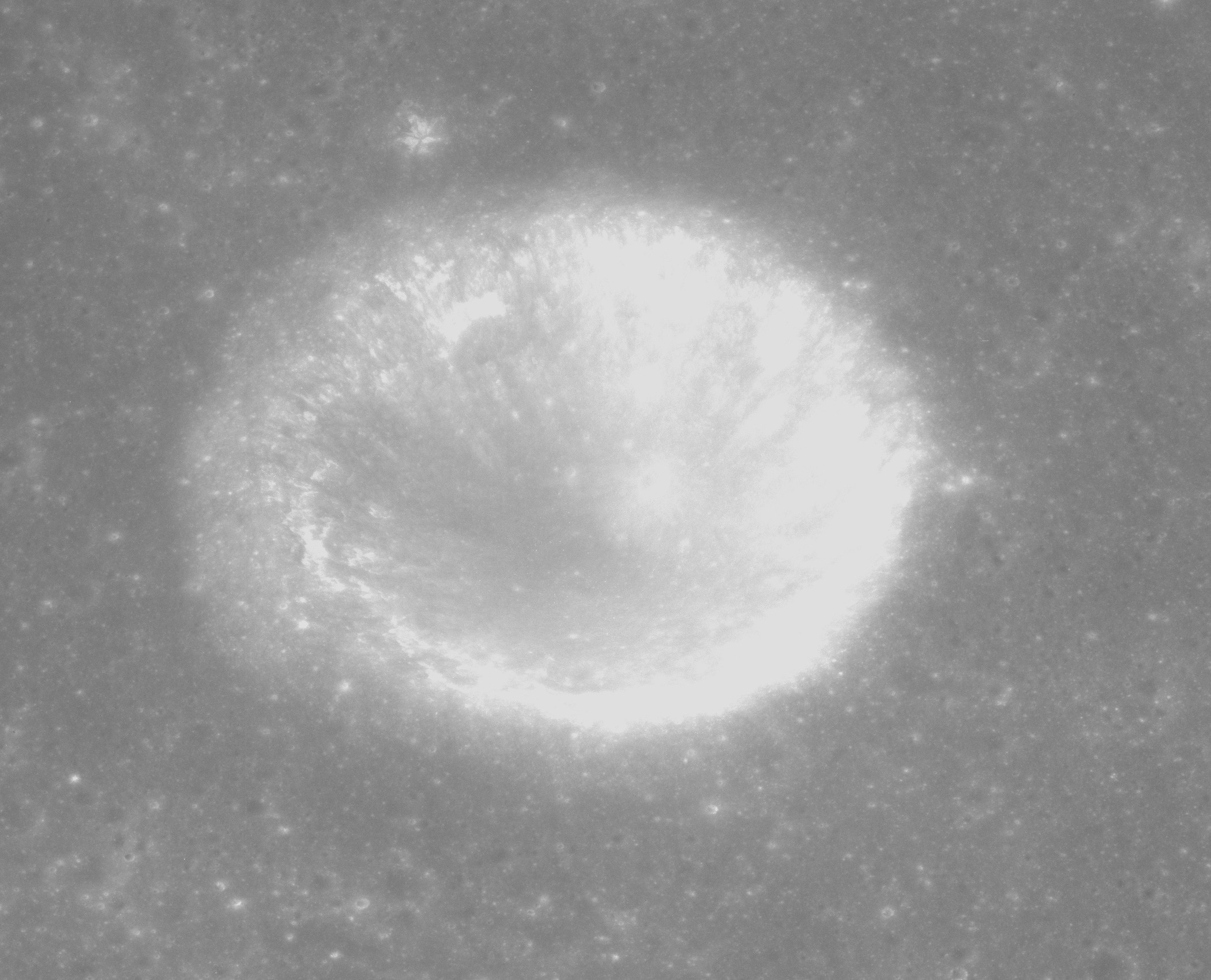 Oblique view of Smithson crater, on the moon. Taken by Apollo 15 panoramic camera.